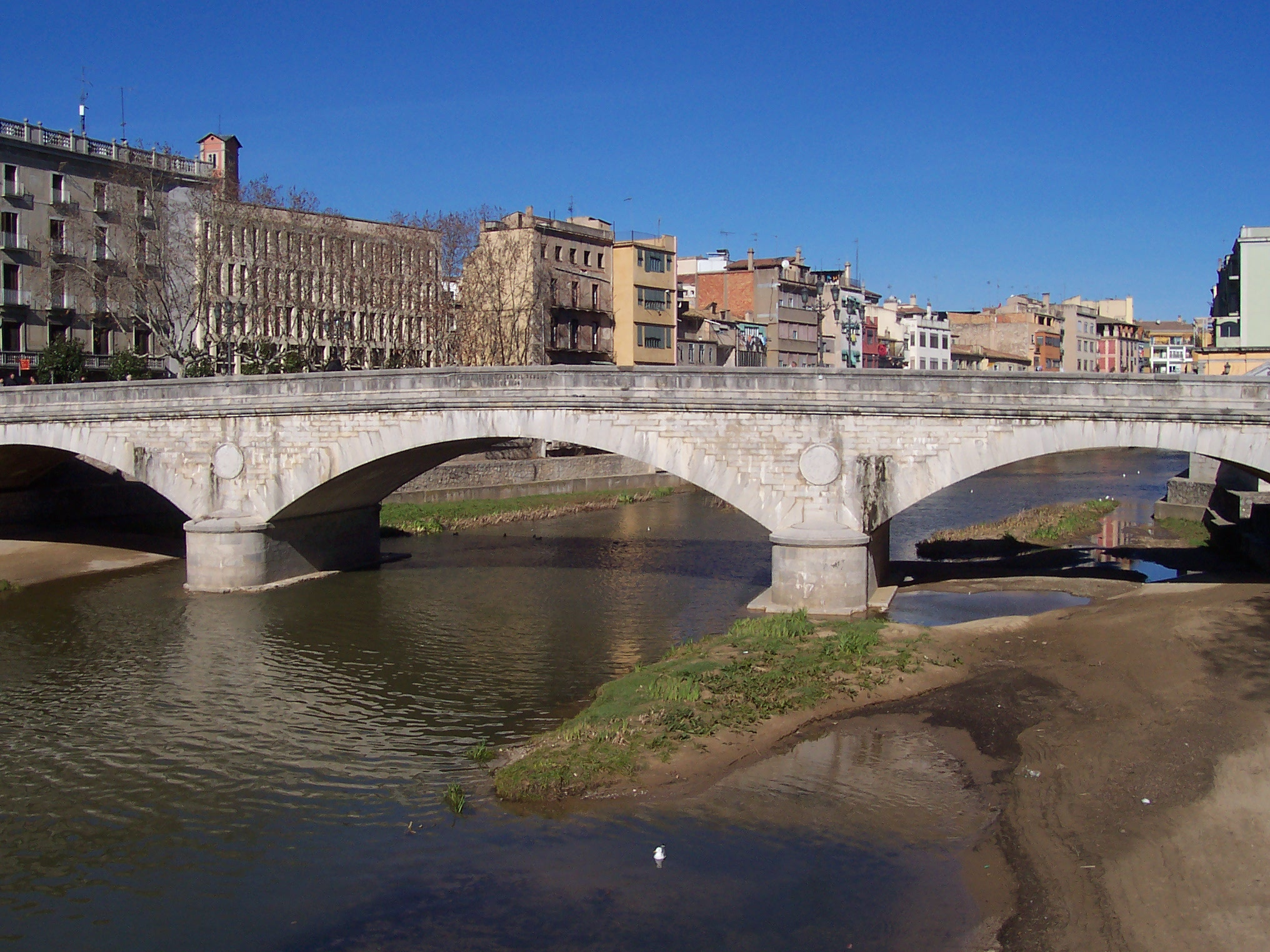 The Pont de Pedra (bridge of stone) of Girona, Spain.